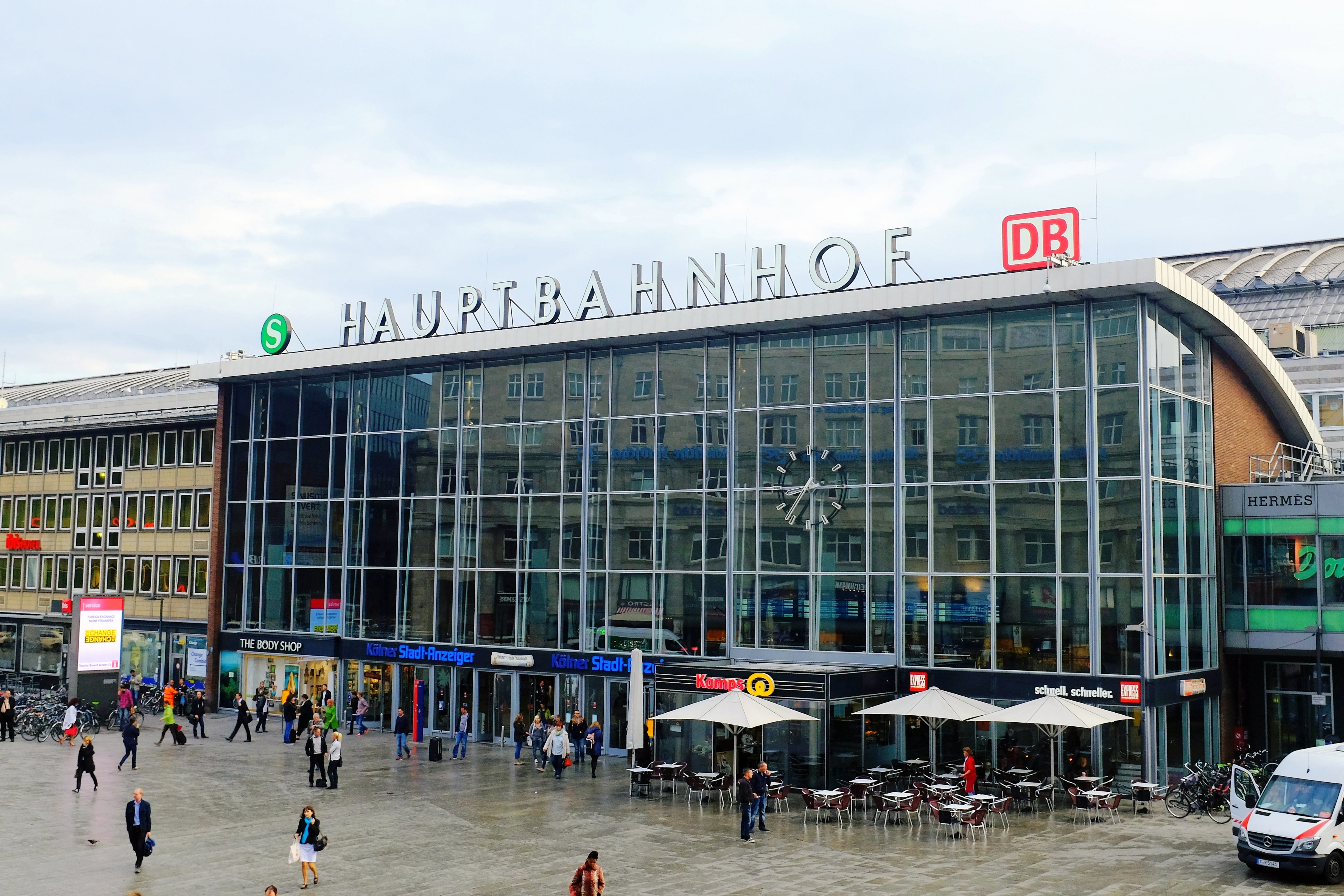 Cologne main train station